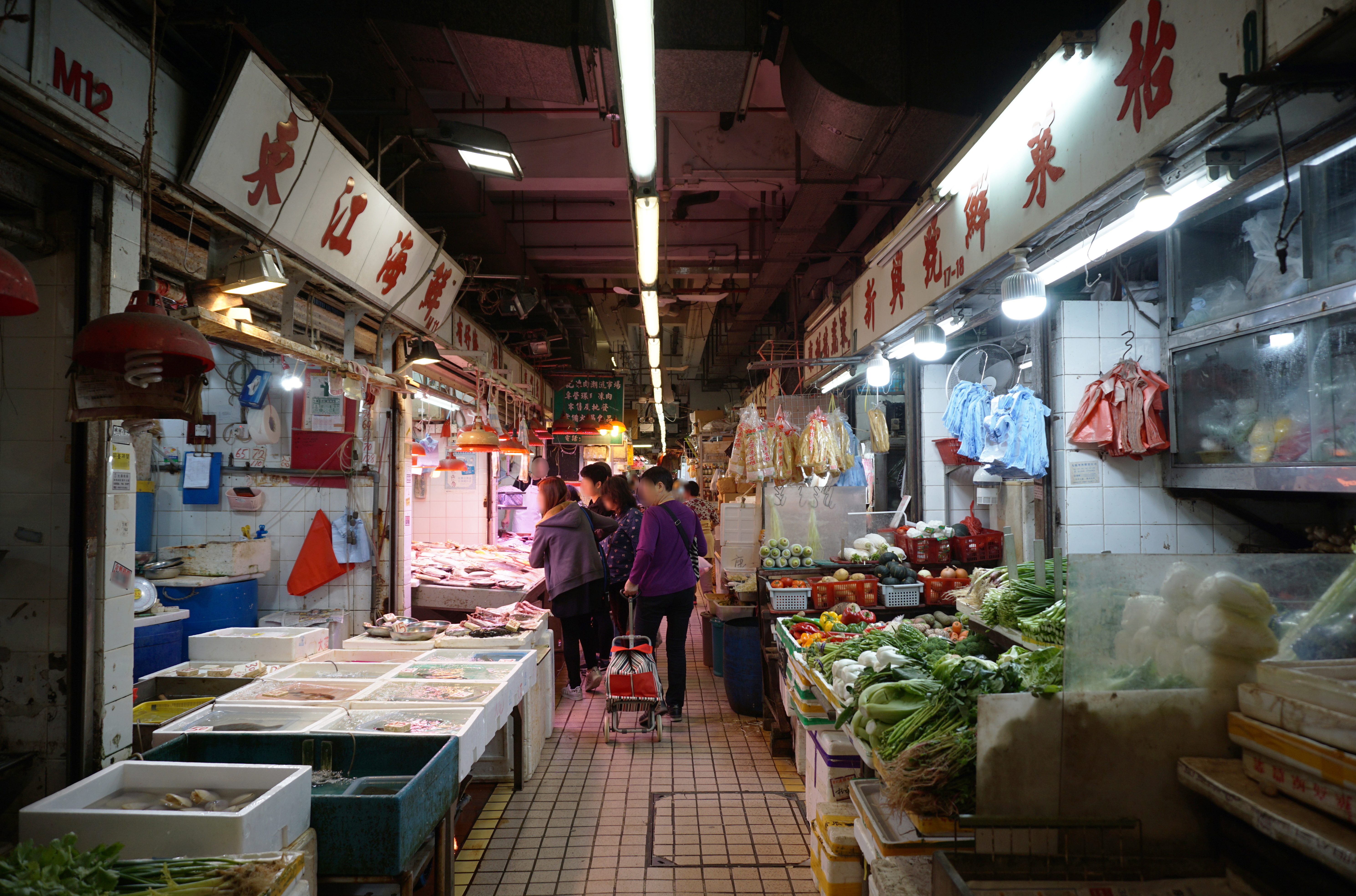 North Kwai Chung Market in Shek Yam, Hong Kong.